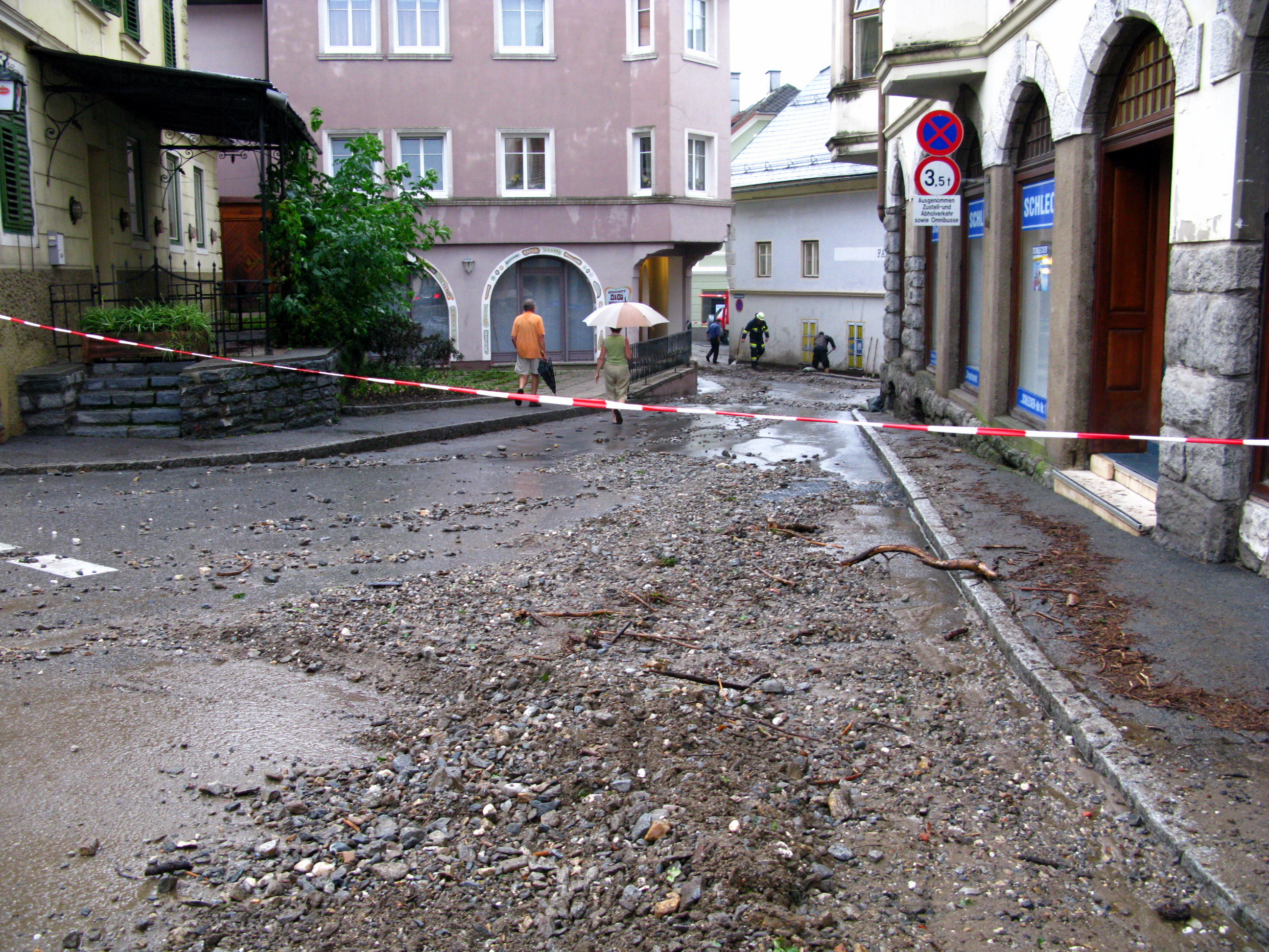 Minor damage by a severe thunderstorm on 22 August 2009 in Millstatt district Spittal an der Drau in Carinthia / Austria / European Union.